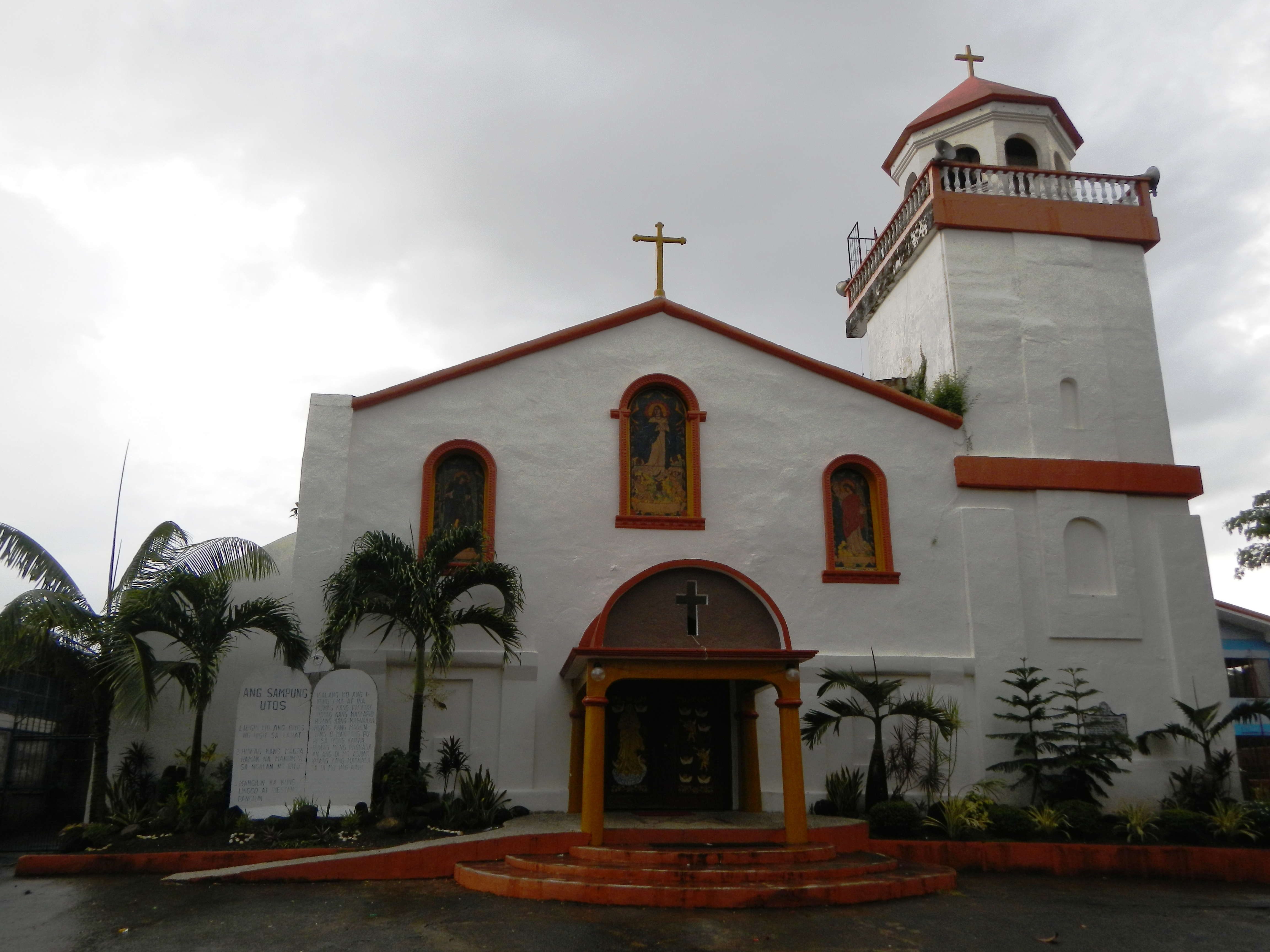 UploadWizard photos -- (General description, 3-dimension angle by angle photography of this town, church & landmarks) -- of Santa Maria, Laguna [1] (a fourth class municipality in the province of Laguna,[2] Philippines, land area of 126 km2 [3] Coordinates: 14°30'35"N 121°25'51"E[4]) and the --- 1613 Nuestra Señora delos Angeles Parish Church of Santa Maria, Santa María de los Ángeles - Our Lady of the Angels Parish Church, Parokya ng Nuestra Señora de los Angeles, The Church of Santa Maria, Laguna -- belongs to the Roman Catholic Diocese of San Pablo[5] - Vicariate of Saints Peter and Paul Episcopal District IV [6] [7].